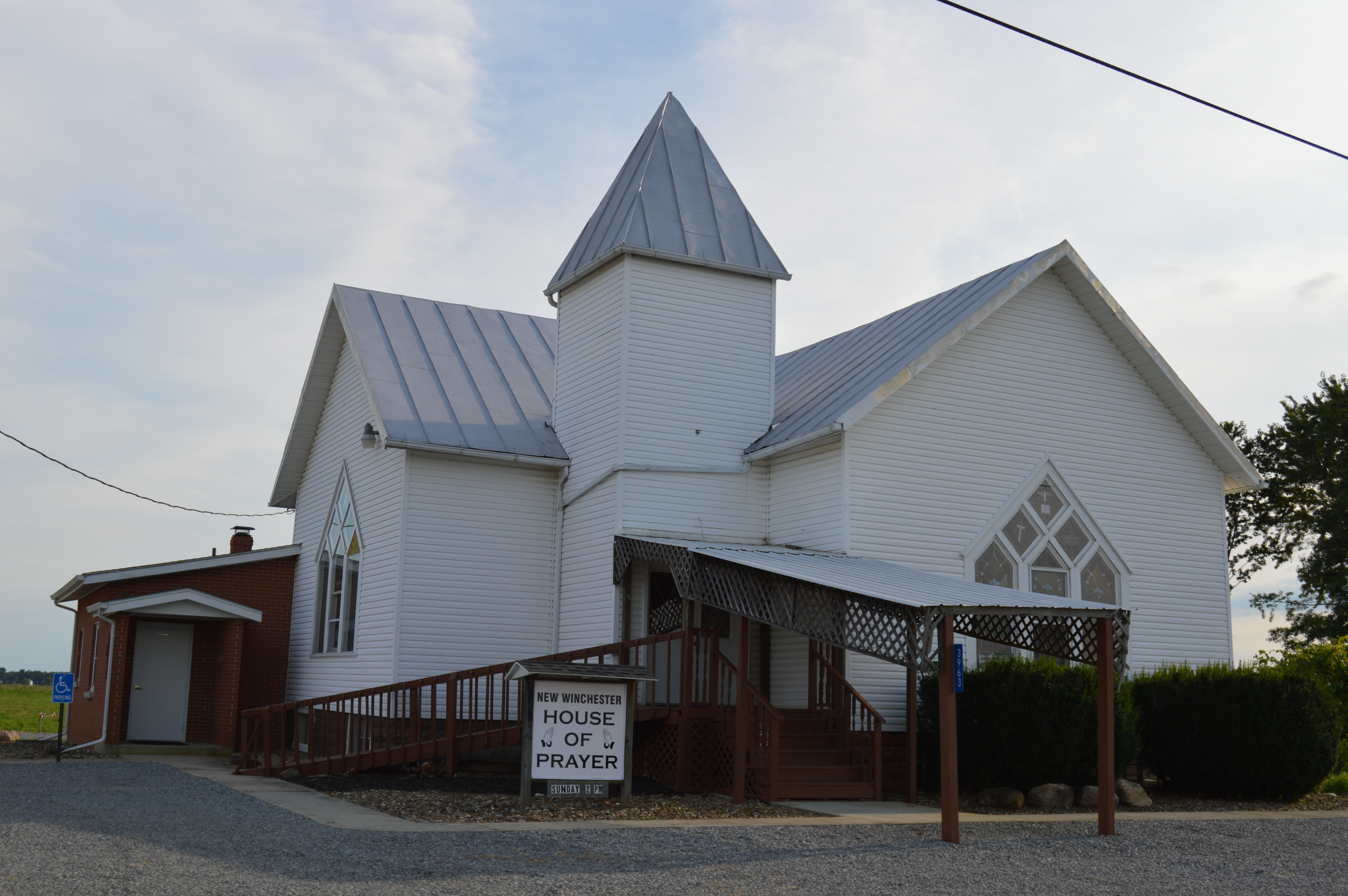 Front and eastern side of the New Winchester House of Prayer, located at 3963 Monnett-New Winchester Road in New Winchester, Ohio, United States.